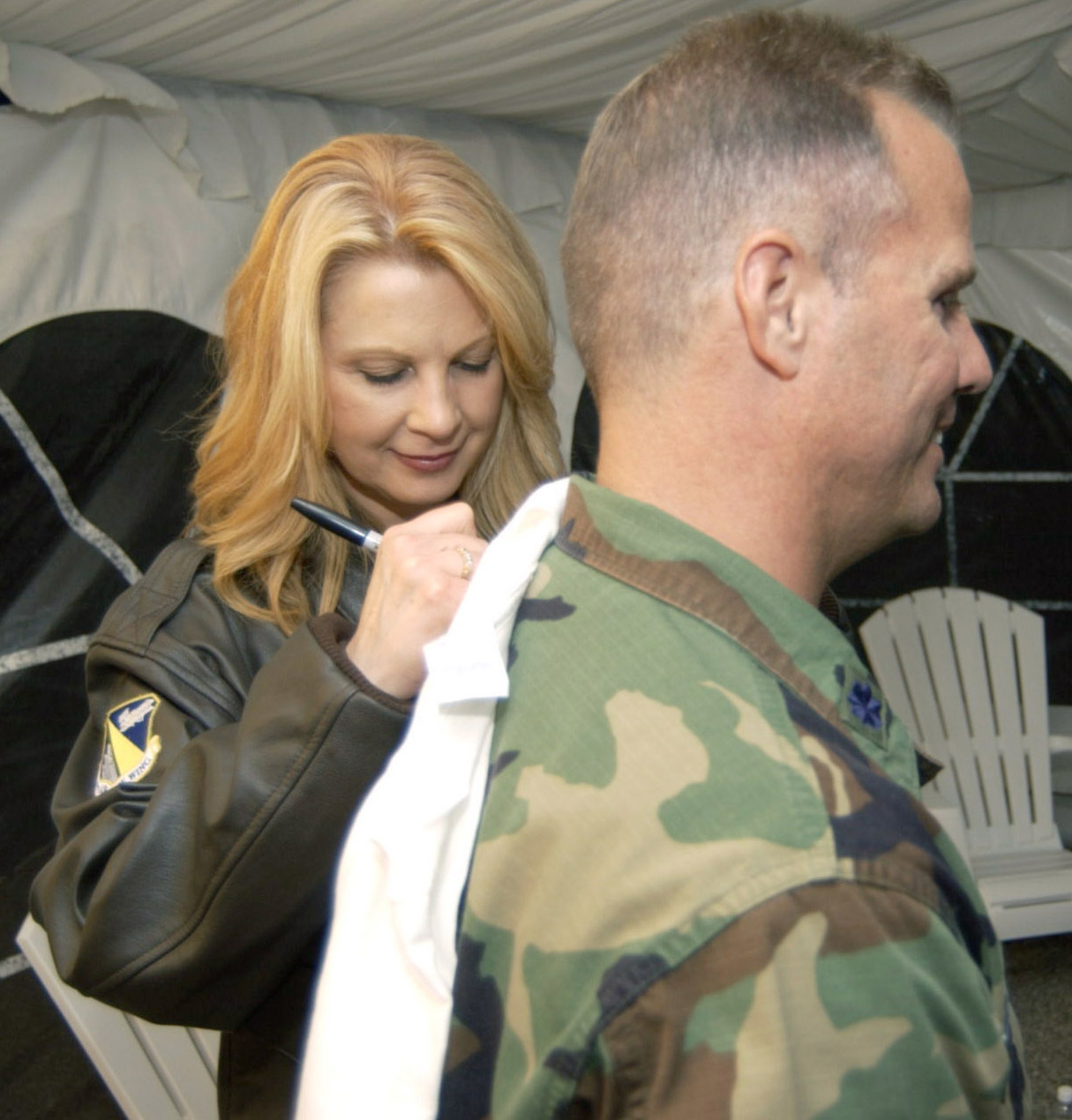 WRIGHT-PATTERSON AIR FORCE BASE, Ohio. Country singer Patty Loveless signs a T-shirt for Lt. Col. David McElveen here July 16. More than 5,000 airmen, civilian employees, retirees and families gathered for a free concert. Ms. Loveless' performance was sponsored by the Spirit of America Tour. Colonel McElveen is assigned to the base's Air Force Research Laboratory.